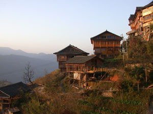 壮族山寨。Vincivinci拍摄于广西龙脊。 Zhuang village in Guangxi, China